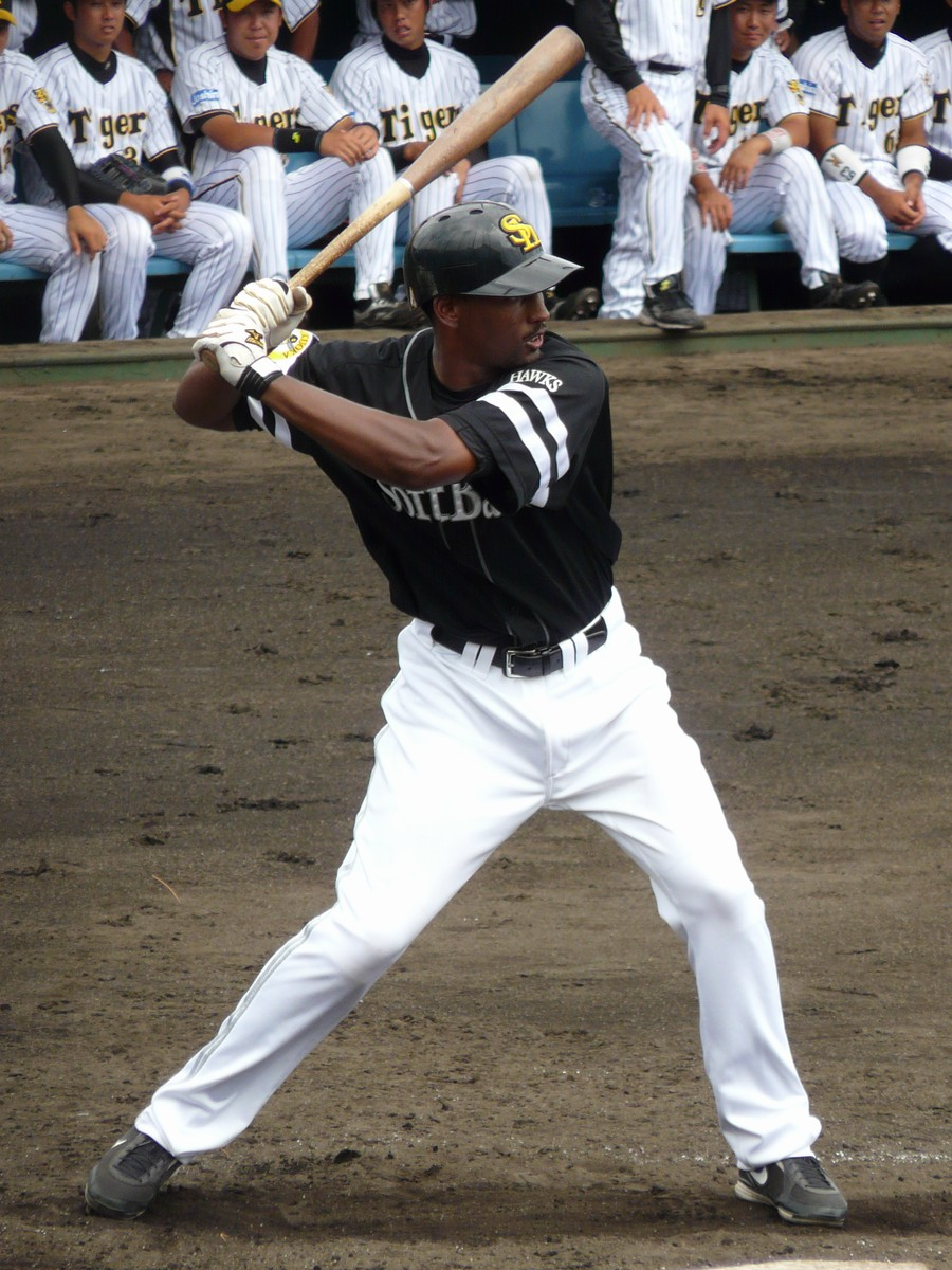 Drew Toussaint